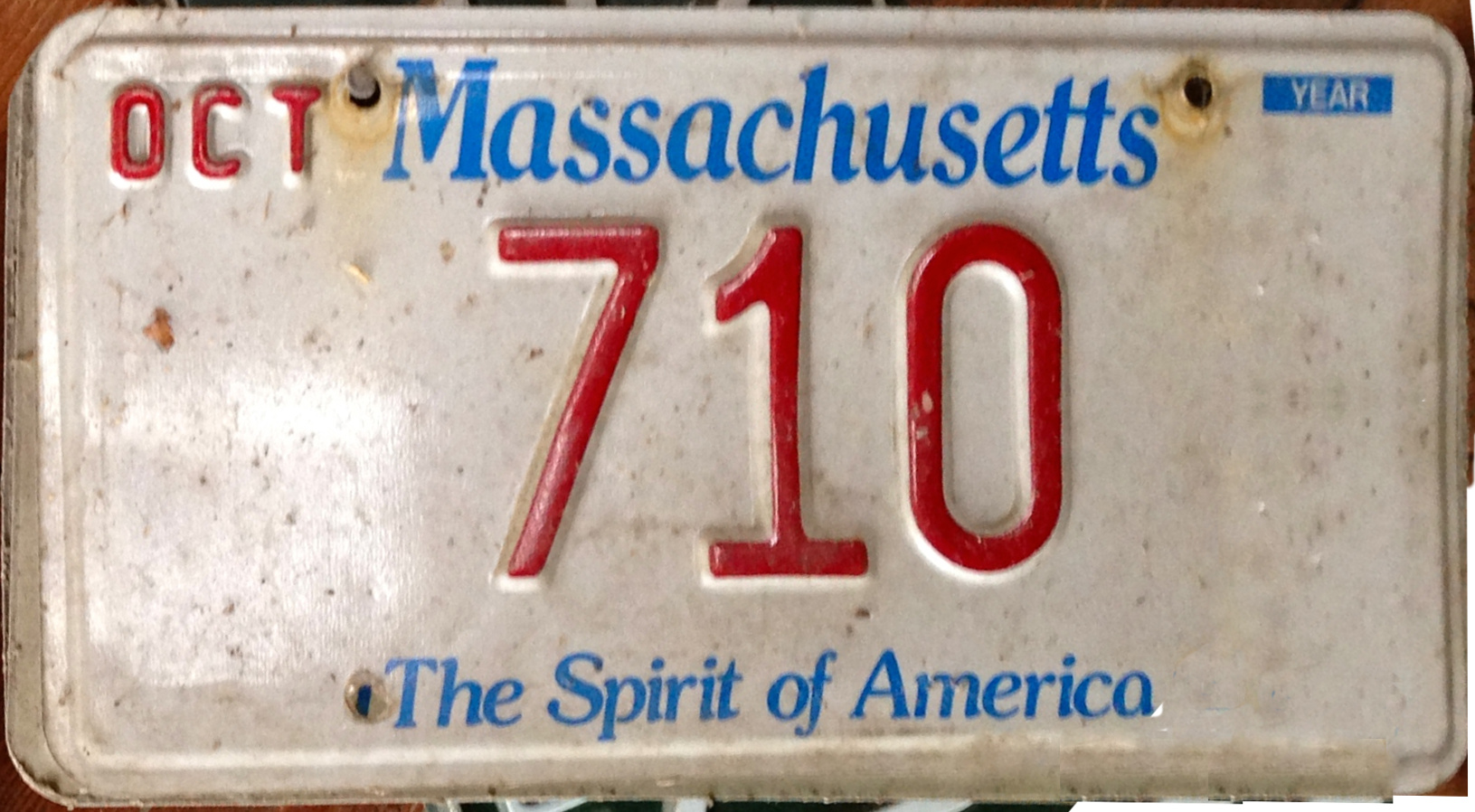 Massachusetts 1988 'reserve' or 'legacy' plate